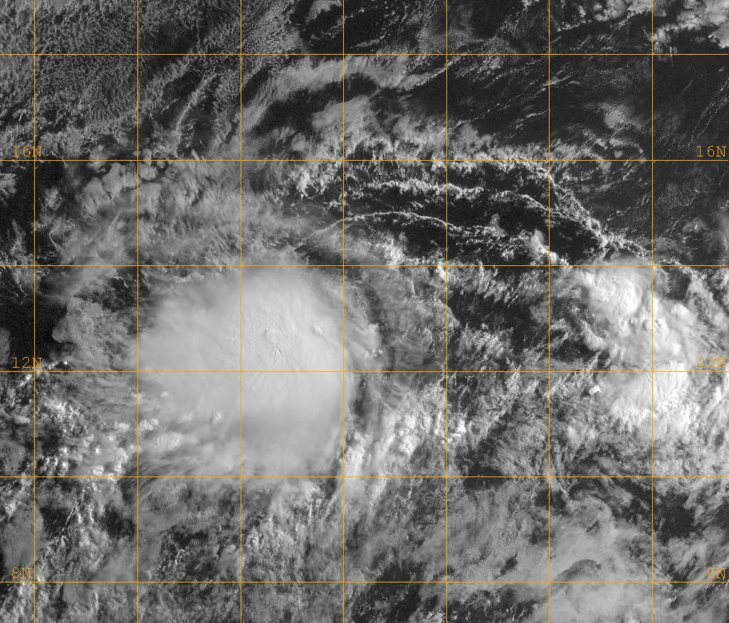 Tropical Storm Erick of 2007, photographed in visible light from GOES-11 satellite at 1600Z August 1.